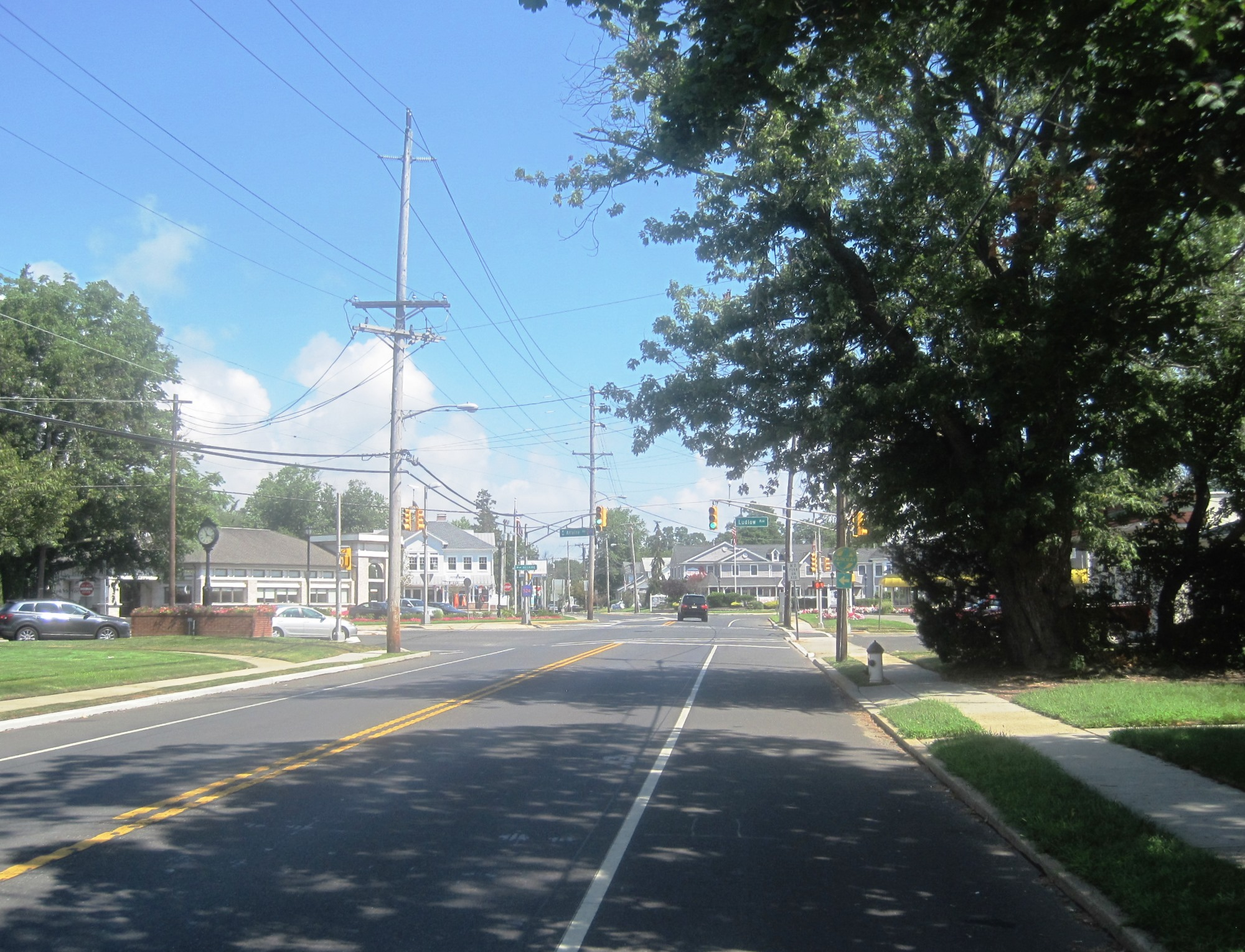 Photo showing the center of Spring Lake Heights. Photo taken along northbound New Jersey Route 71 approaching Allaire Road (County Route 524).